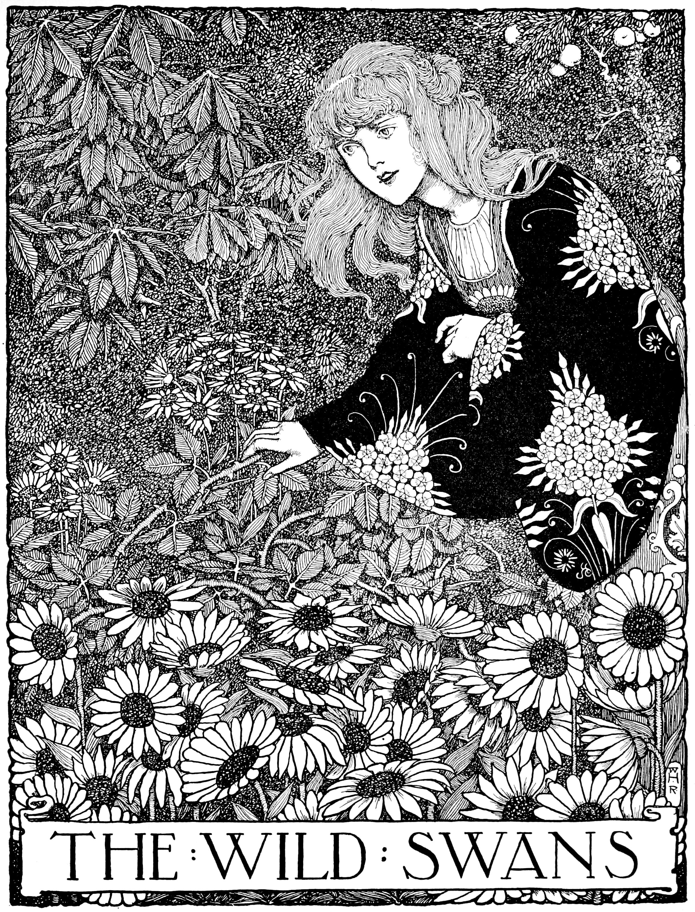 Illustration in Hans Andersen's fairy tales (1913) London: Constable.